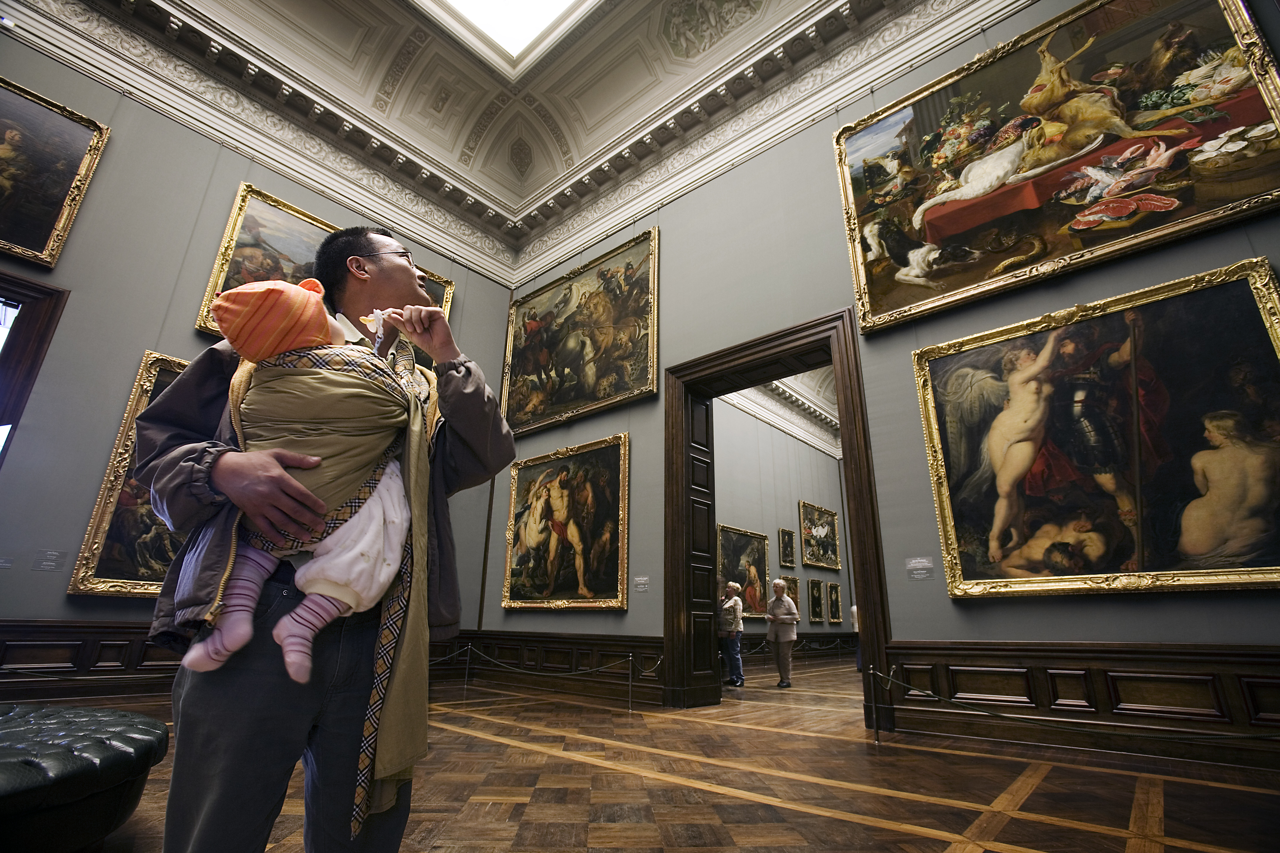 Japanese tourist with baby on hold. Gemäldegalerie Alte Meister in the Dresdner Zwinger Museum. Dresden, Germany